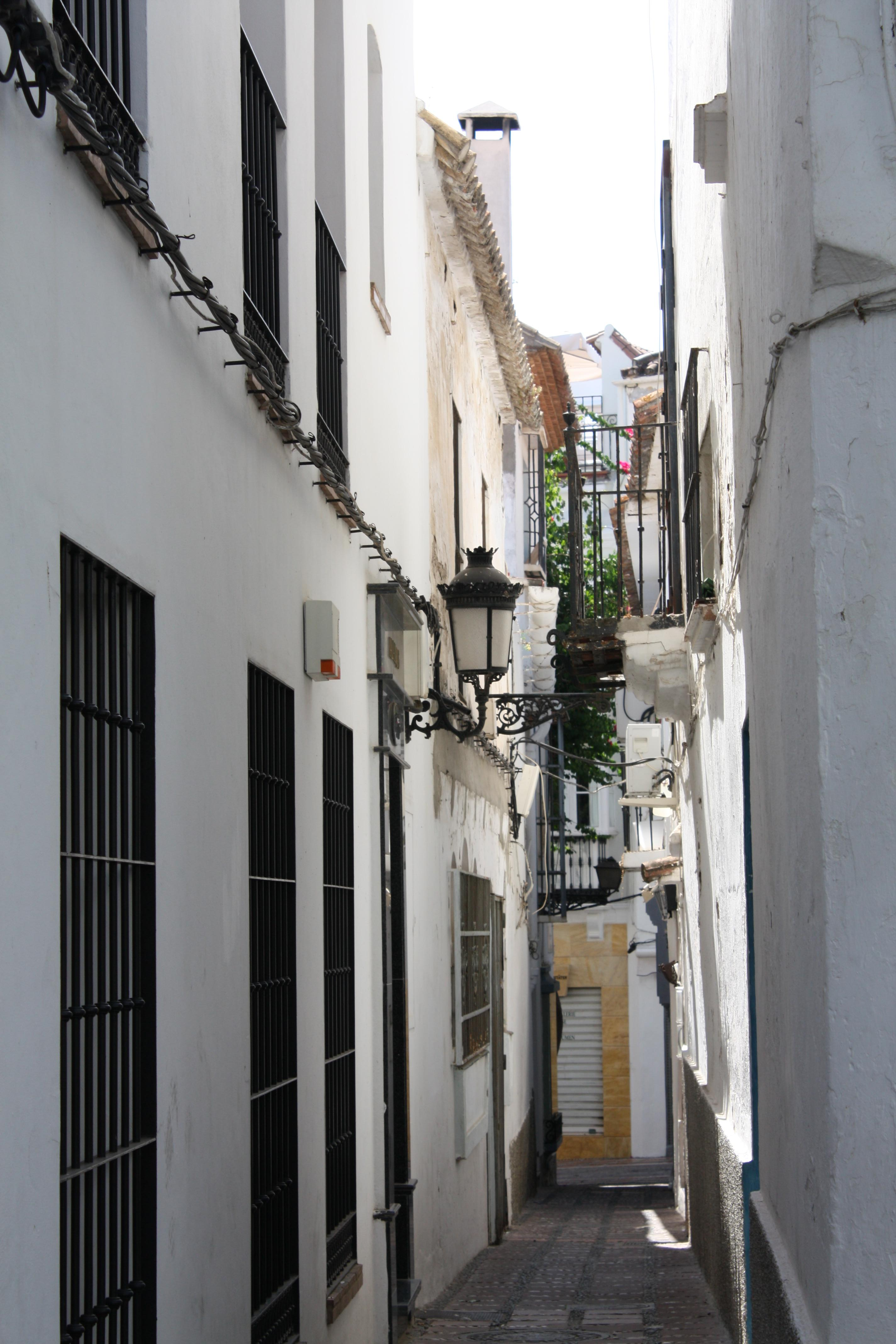 Centro Histórico of Marbella, Spain